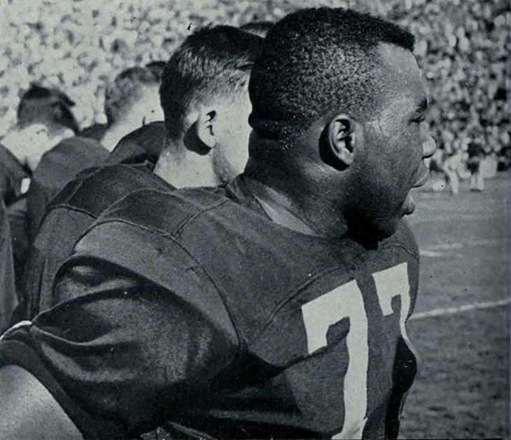 Photograph of Art Walker This work is in the public domain because it was published in the United States between 1925 and 1963 and although there may or may not have been a copyright notice, the copyright was not renewed. Unless its author has been dead for the required period, it is copyrighted in the countries or areas that do not apply the rule of the shorter term for US works, such as Canada (50 pma), Mainland China (50 pma, not Hong Kong or Macao), Germany (70 pma), Mexico (100 pma), Switzerland (70 pma), and other countries with individual treaties. See Commons:Hirtle chart for further explanation. This work is in the public domain in the United States because it was published in the United States between 1925 and 1977, inclusive, without a copyright notice. For further explanation, see Commons:Hirtle chart as well as a detailed definition of "publication" for public art. Note that it may still be copyrighted in jurisdictions that do not apply the rule of the shorter term for US works (depending on the date of the author's death), such as Canada (50 p.m.a.), Mainland China (50 p.m.a., not Hong Kong or Macao), Germany (70 p.m.a.), Mexico (100 p.m.a.), Switzerland (70 p.m.a.), and other countries with individual treaties.